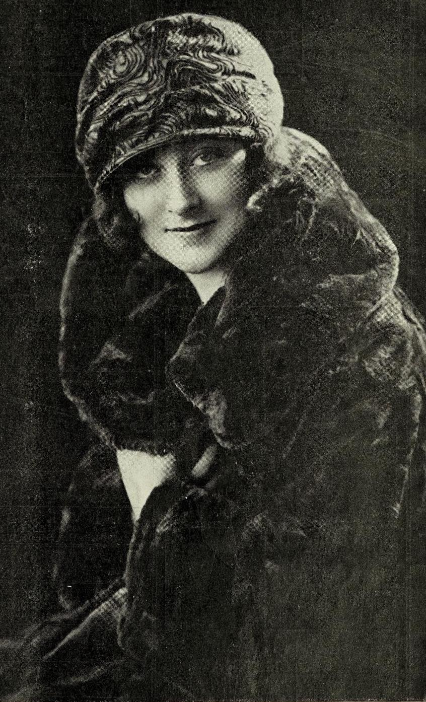 Phyllis Shannaw, a young white woman, wearing a fur coat and a printed fabric hat low over her brow.